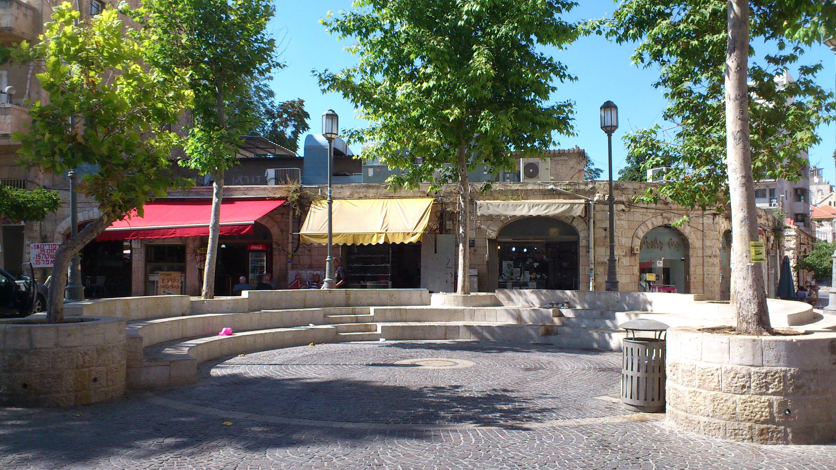 Even Israel